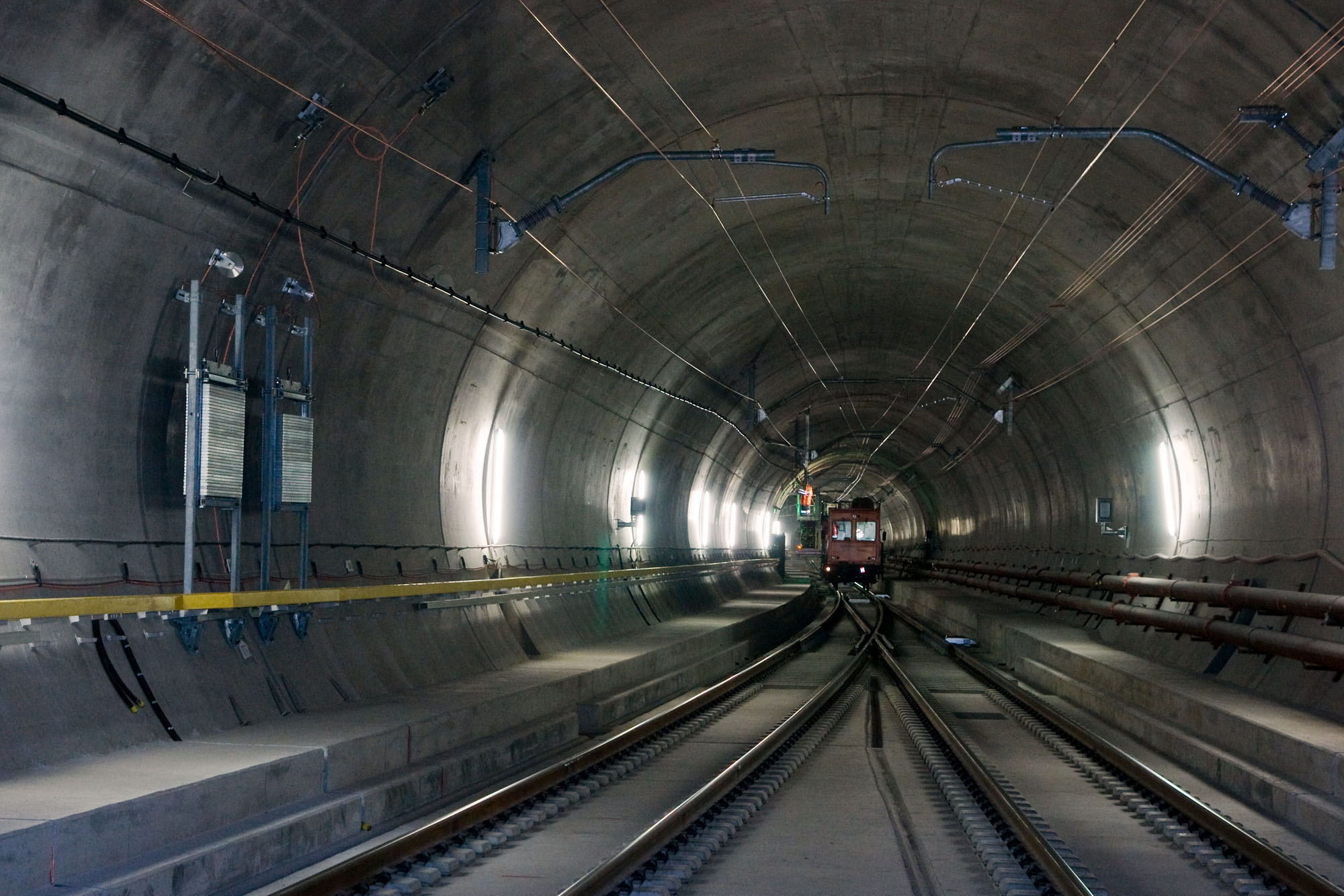 Overhead line installation car in the east tube of the Gotthard Base Tunnel at Faido multifunction station